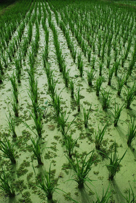 This picture was taken at Laman Padi Langkawi.